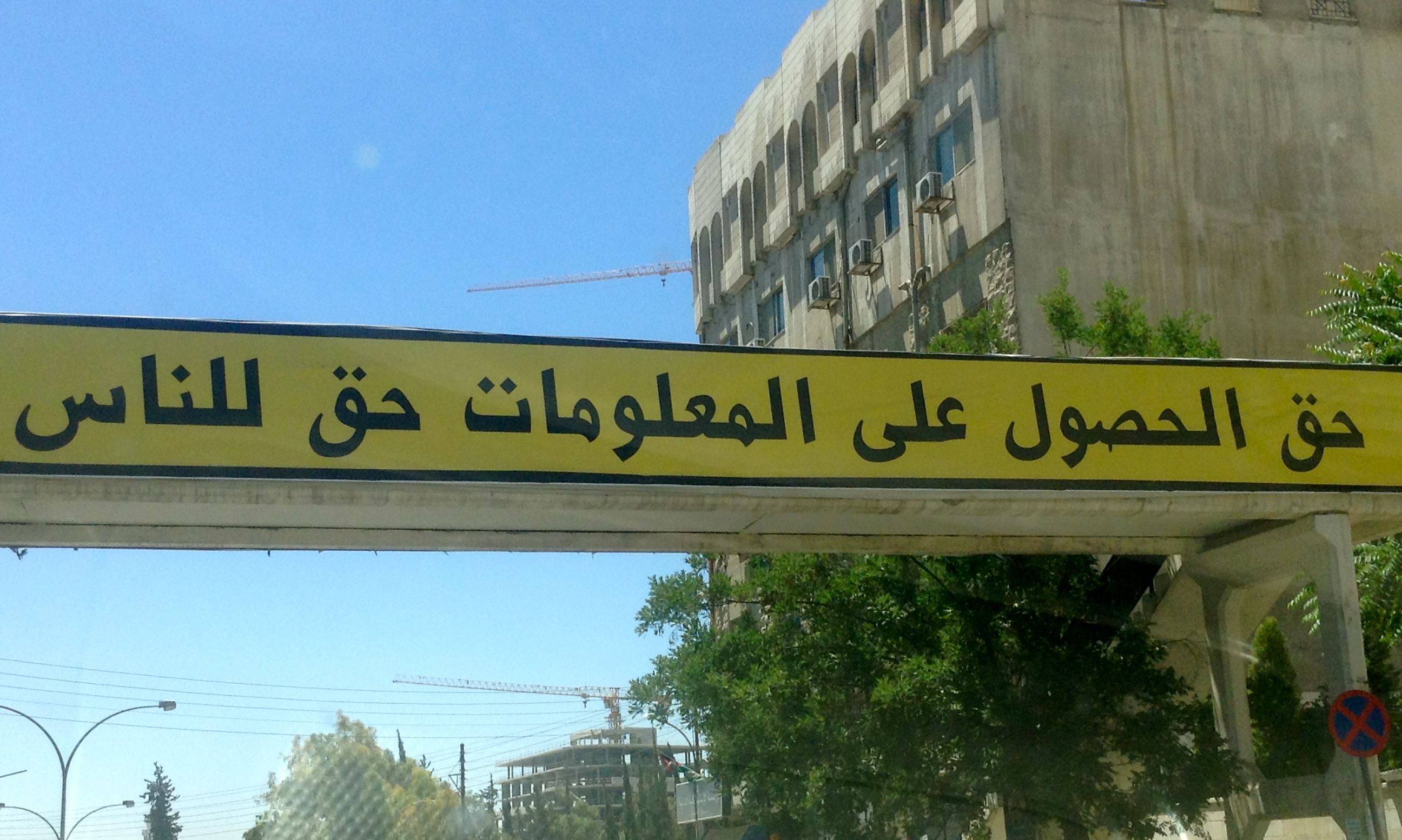 This sign from the Center for Defending Freedom of Journalists in Jordan was posted in protest to the 2012 press and publications law